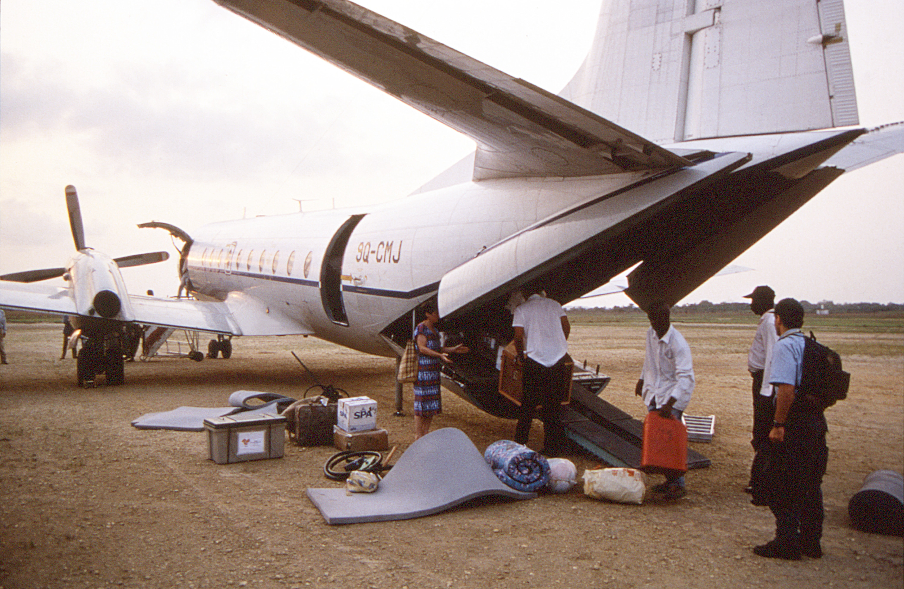 This historic 1997 image was created during an investigation into an outbreak of monkeypox, which took place in the Democratic Republic of the Congo (DRC), 1996 to 1997, formerly Zaire. Pictured here, during their study, was the epidemiologic team after having landed at Lodja Airport (LJA). PHIL images 12745 through 12784 depict a full slide presentation telling the story of this investigation.